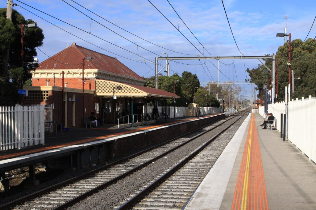 Looking towards the city from platform 2 at Coburg railway station, Melbourne